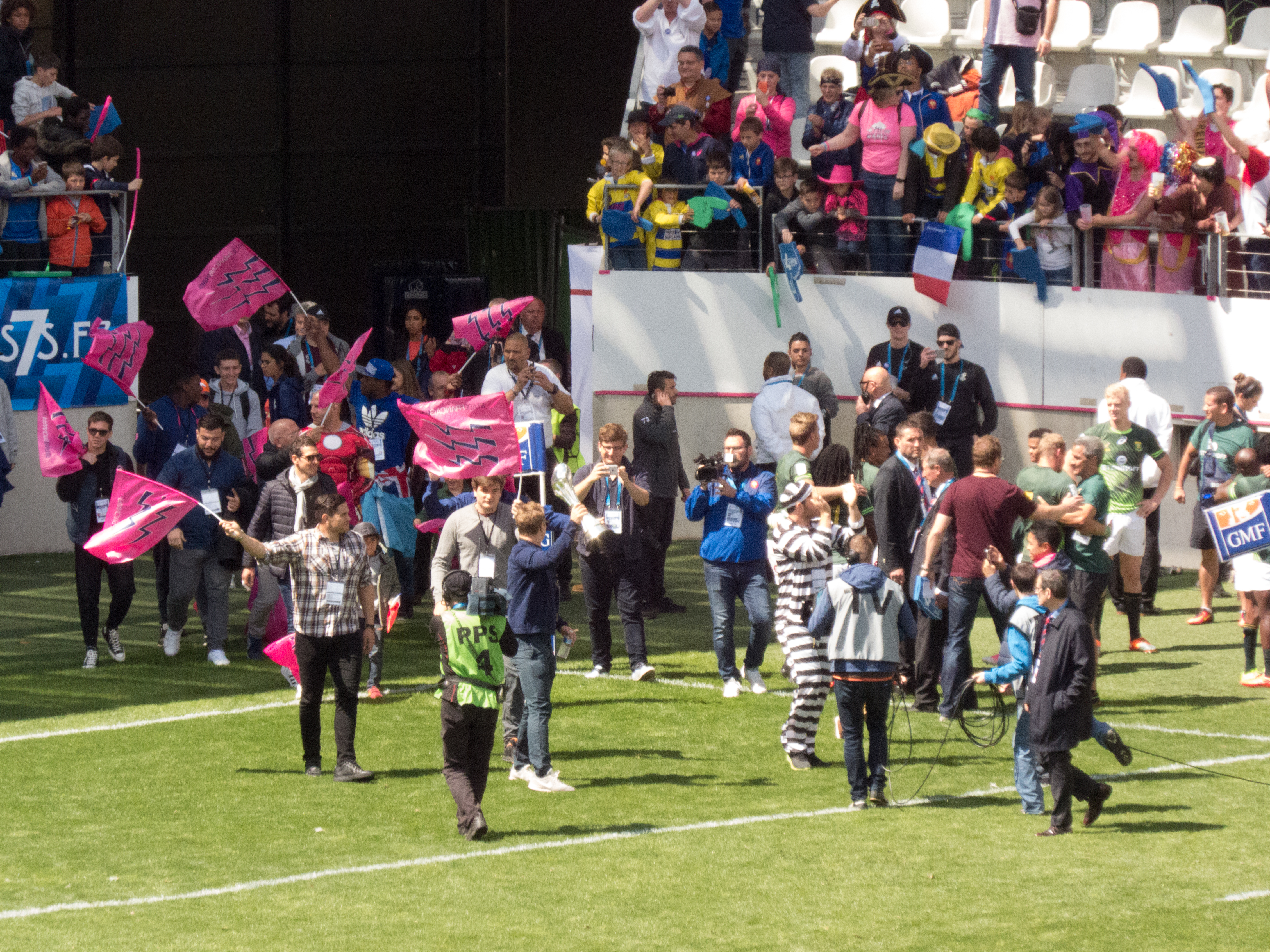 Paris Sevens 2017 — 14 May 2017, stade Jean-Bouin. Match between: South Africa — New Zealand